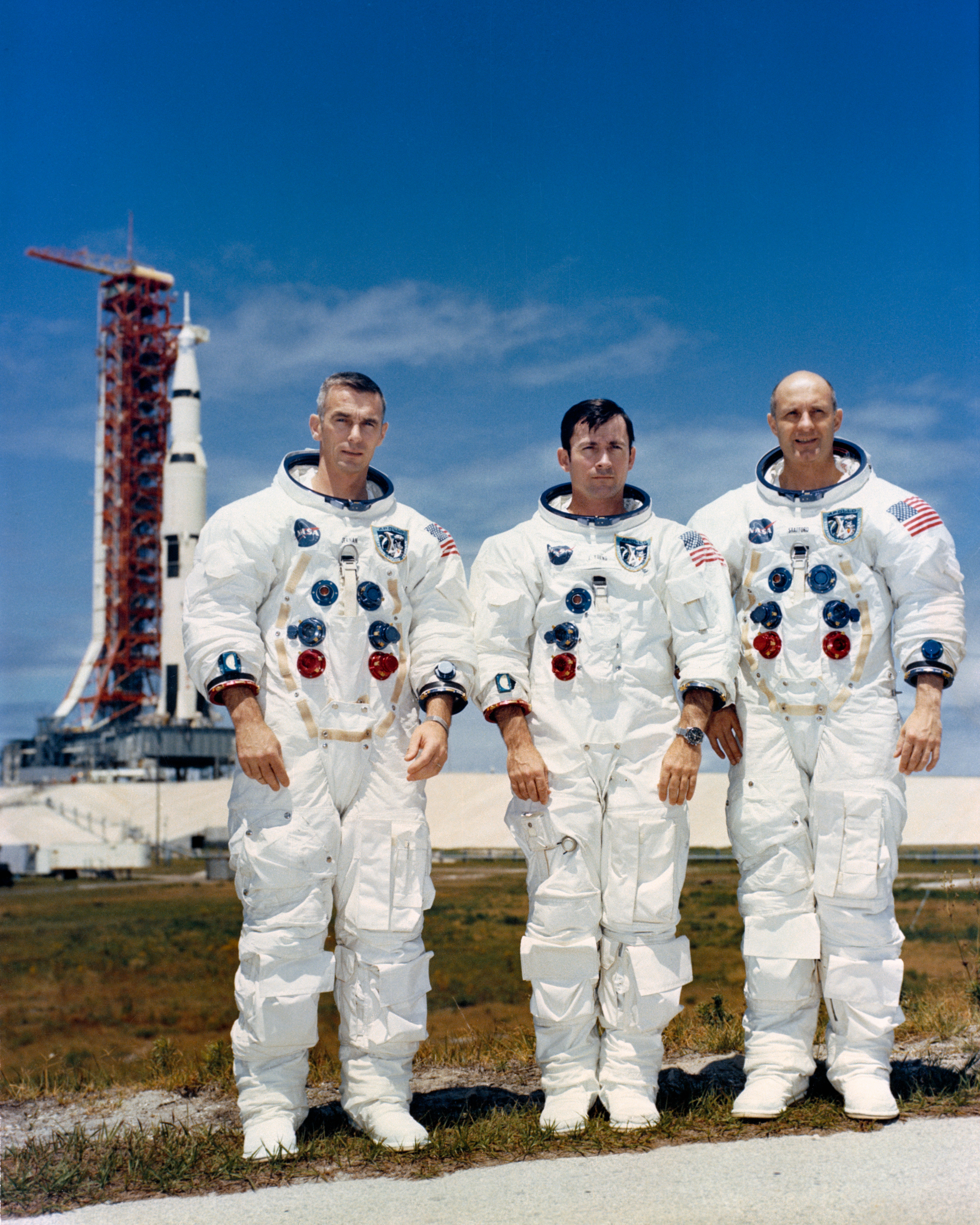 Apollo 10 crew - Cernan, Young, Stafford.